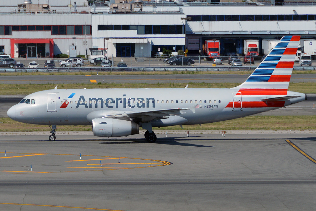 American Airlines, N804AW, Airbus A319-132